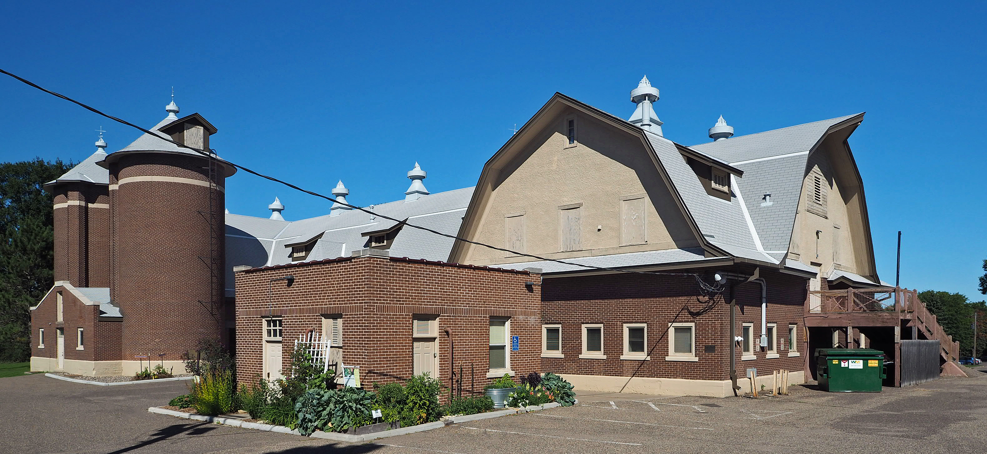 Ramsey County Poor Farm Barn, 2020 White Bear Ave, Maplewood, Minnesota, USA. Viewed from the southwest.